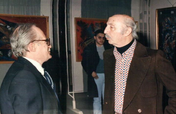 Vittorio Miele and Umberto Mastroianni